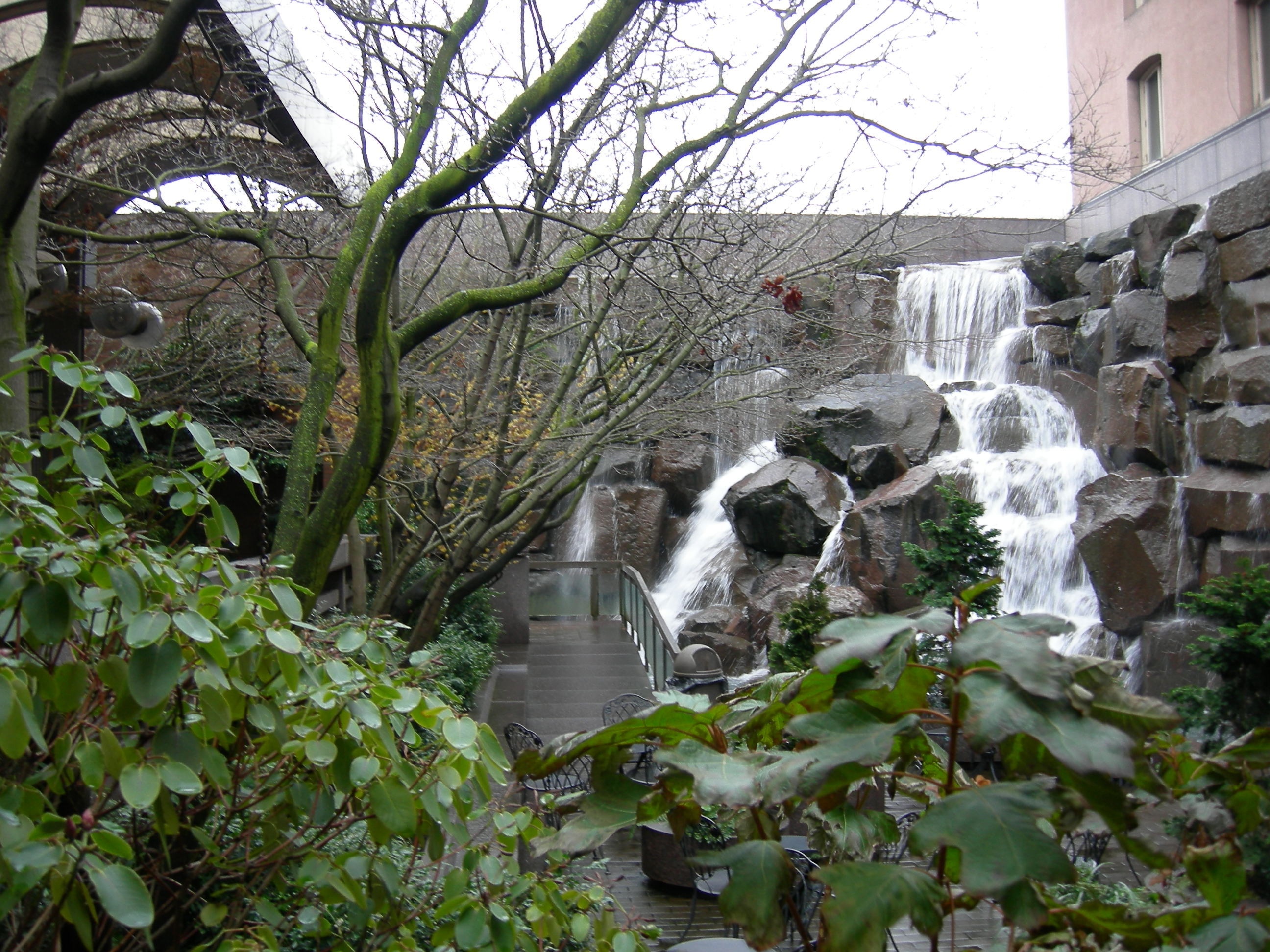 Waterfall Garden Park, Seattle, Washington. The park is on the site of the founding of United Parcel Service.